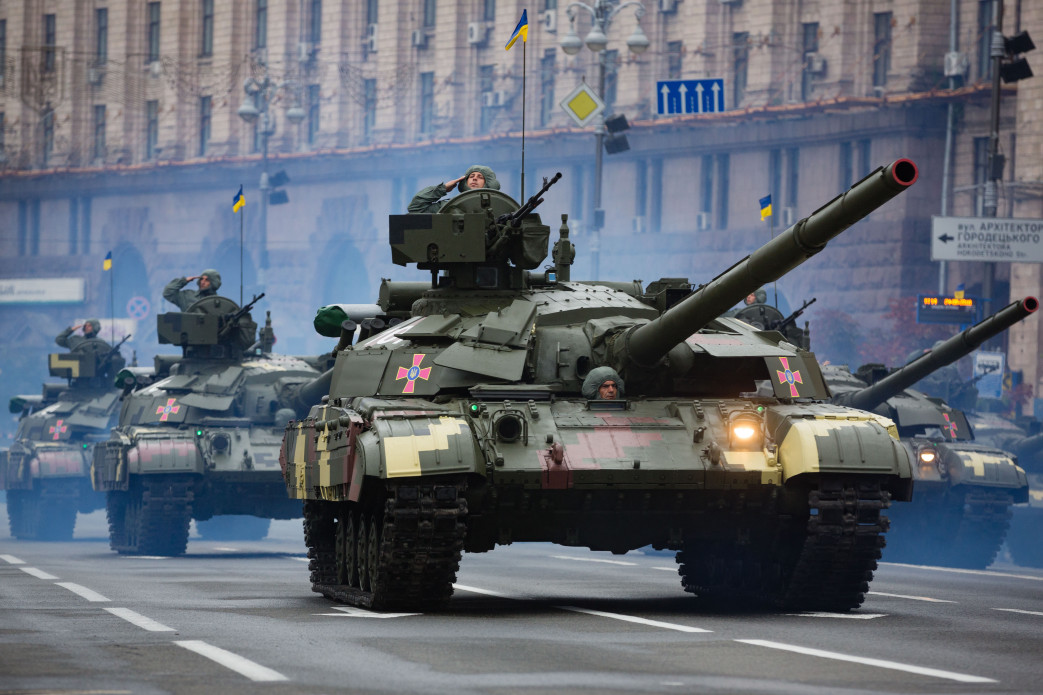 Independence Day parade in Kyiv, 2016